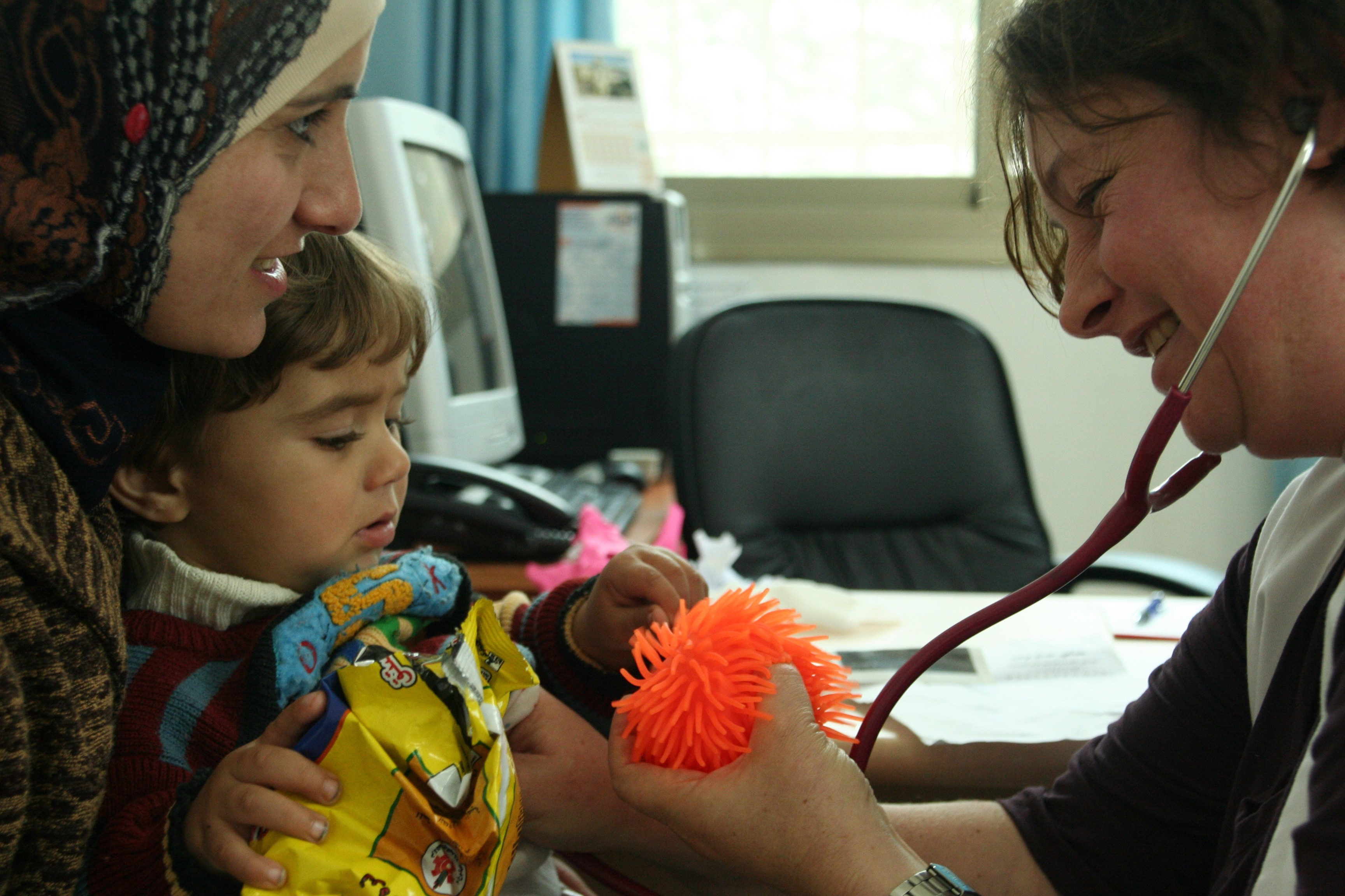 Medical examination of a child during a visit of the PHR mobile clinic to Bruqin, a village in the West Bank